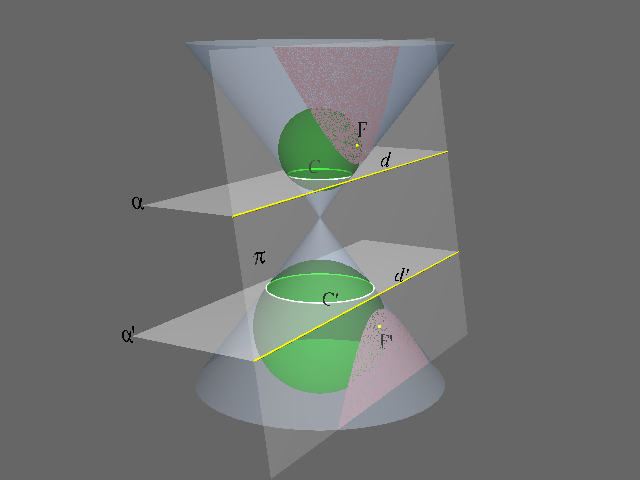 Conic Section (Hyperbola)